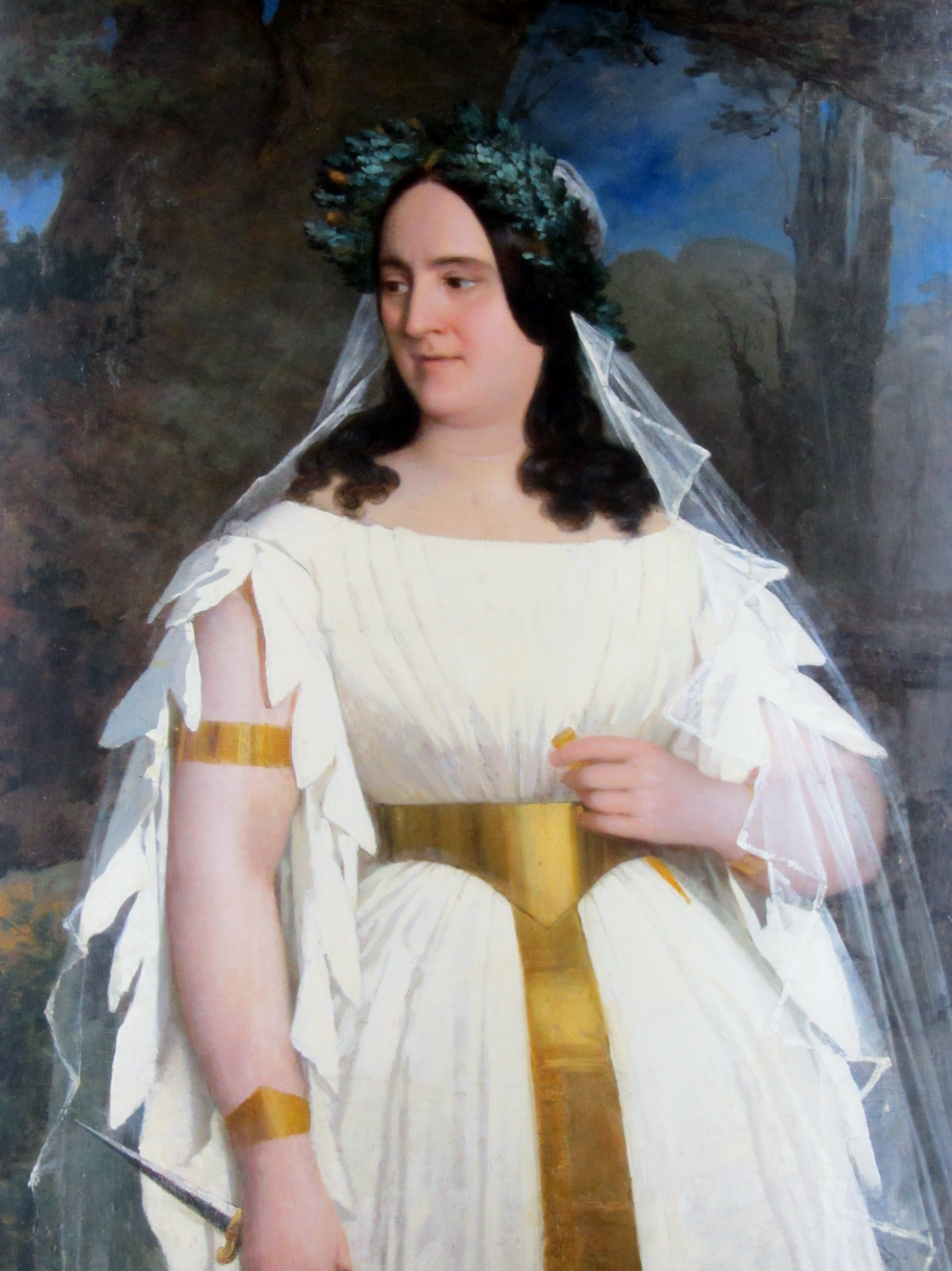 Clorinda (Adelaida) Corradi interpreta el papel de Norma en la opera homónima de Vincenzo Bellini (1801–1835) Alternative namesVincenzo Salvatore Carmelo Francesco BelliniDescriptionItalian composerDate of birth/death3 November 180123 September 1835Location of birth/deathCatania, Kingdom of NaplesPuteaux, FranceWork period1825-1835Work locationNaples, Kingdom of Naples; Milan, Kingdom of Lombardy–Venetia; Paris, FranceAuthority control : Q170209 VIAF: 39560983 ISNI: 0000 0001 2129 1204 LCCN: n80122768 NLA: 35017118 MusicBrainz: 6f5bfd20-84cc-4879-8a40-05631ad576c7 WorldCat